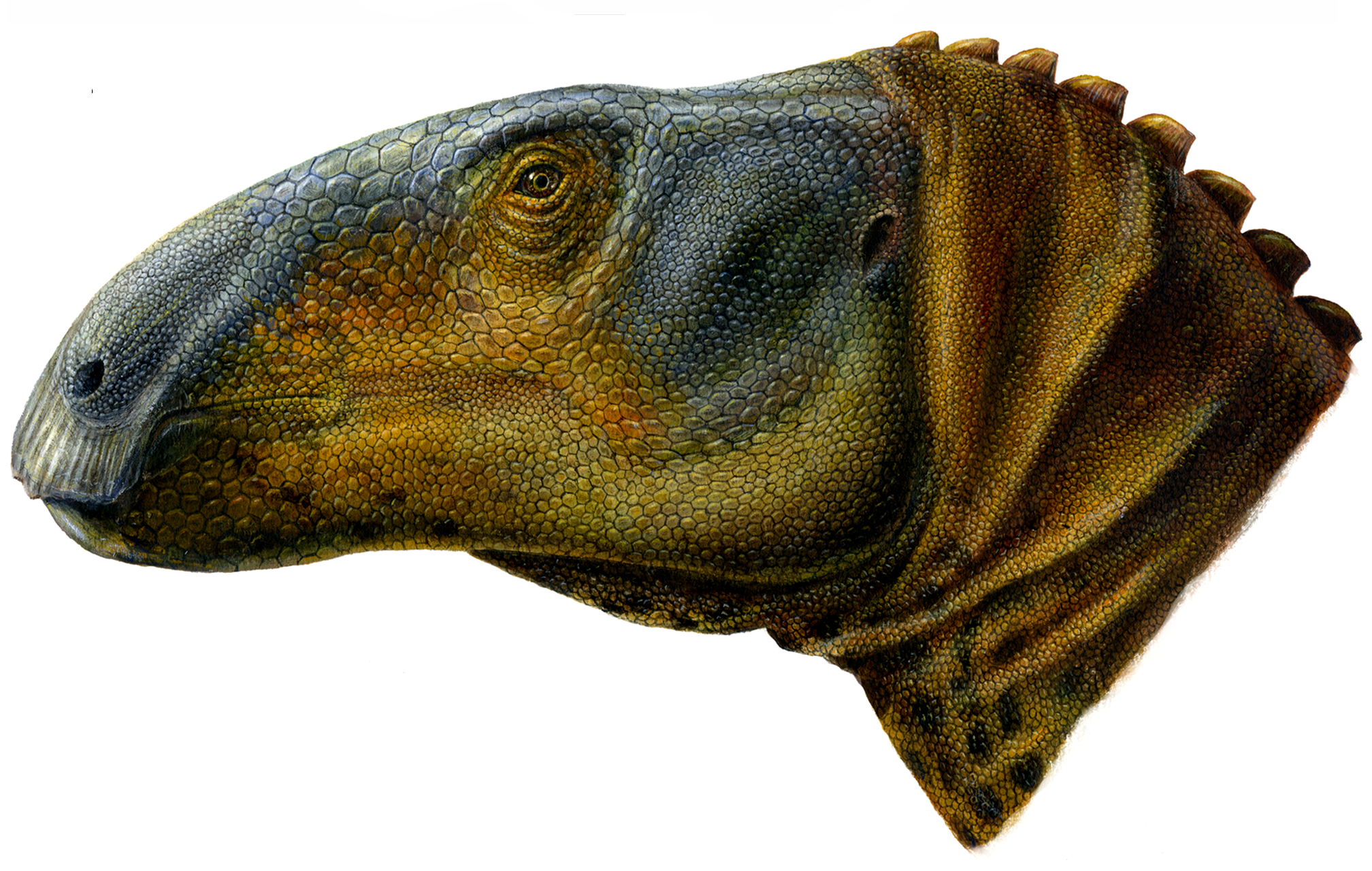 crop of file in file name